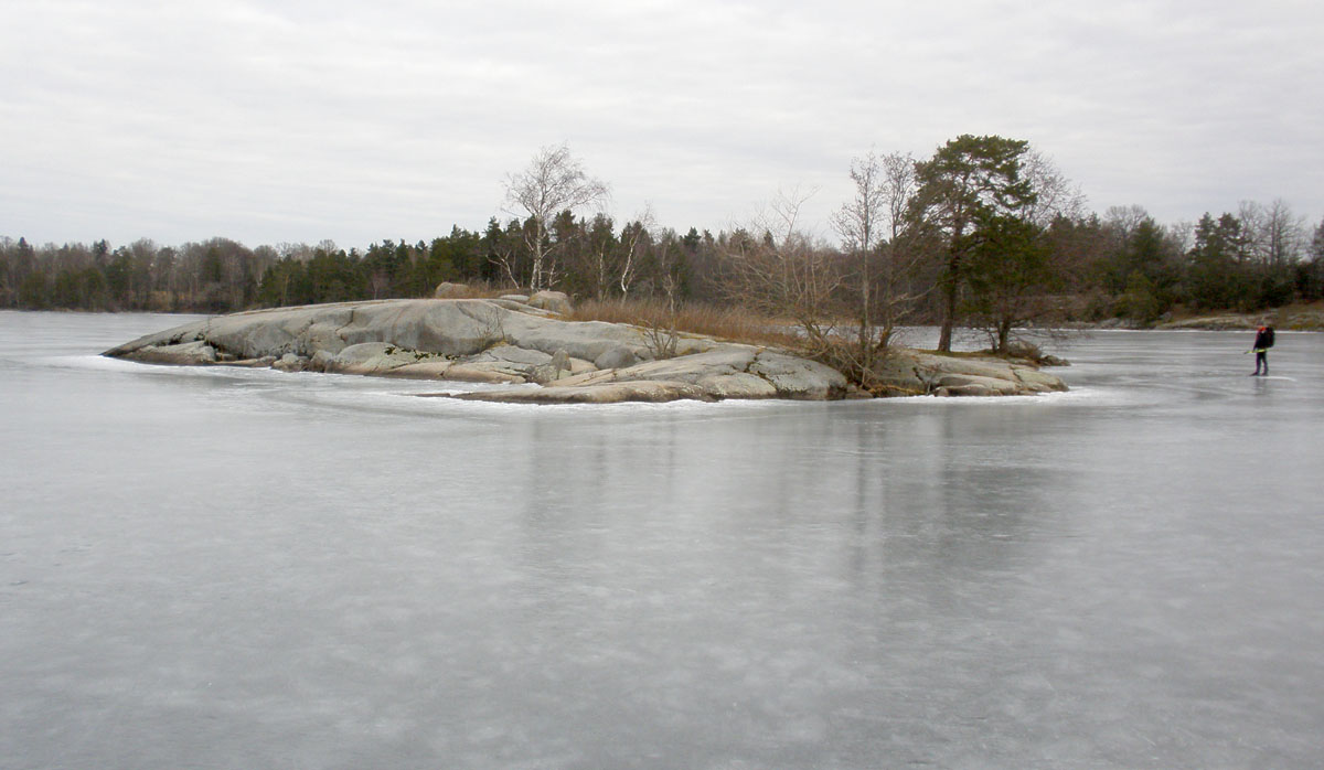 Picture of the island Flasklosen, Lake Jarnlunden, Kinda Municipality, Östergötland, Sweden.